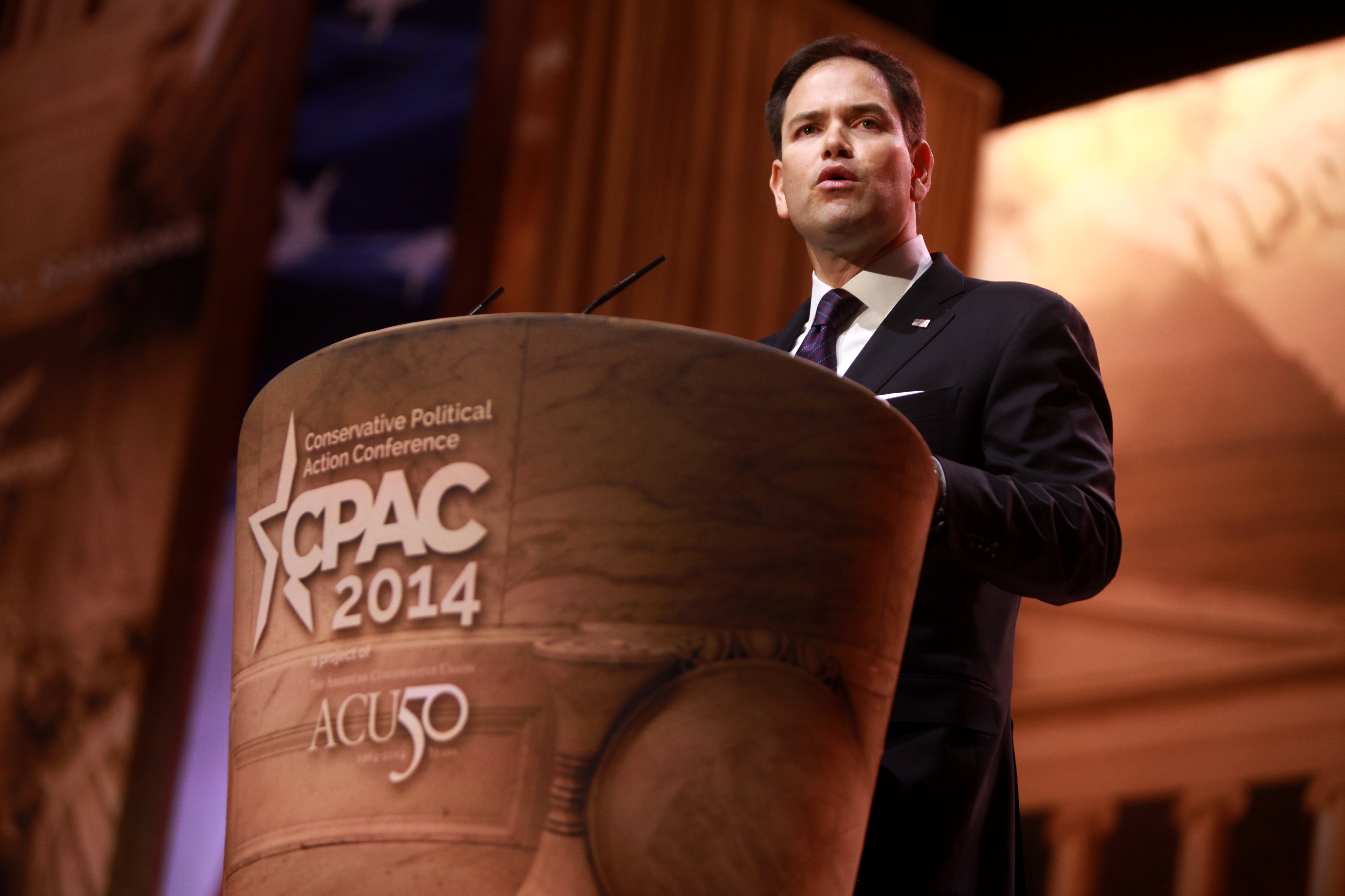 Marco Rubio speaking at CPAC 2014 in Washington, DC.